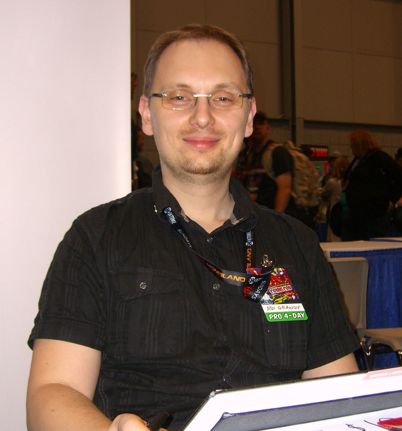 Comics creator Adi Granov at the 2011 New York Comic Con, Friday, October 14, 2011. This photo was created by Luigi Novi. It is not in the public domain, and use of this file outside of the licensing terms is a copyright violation.